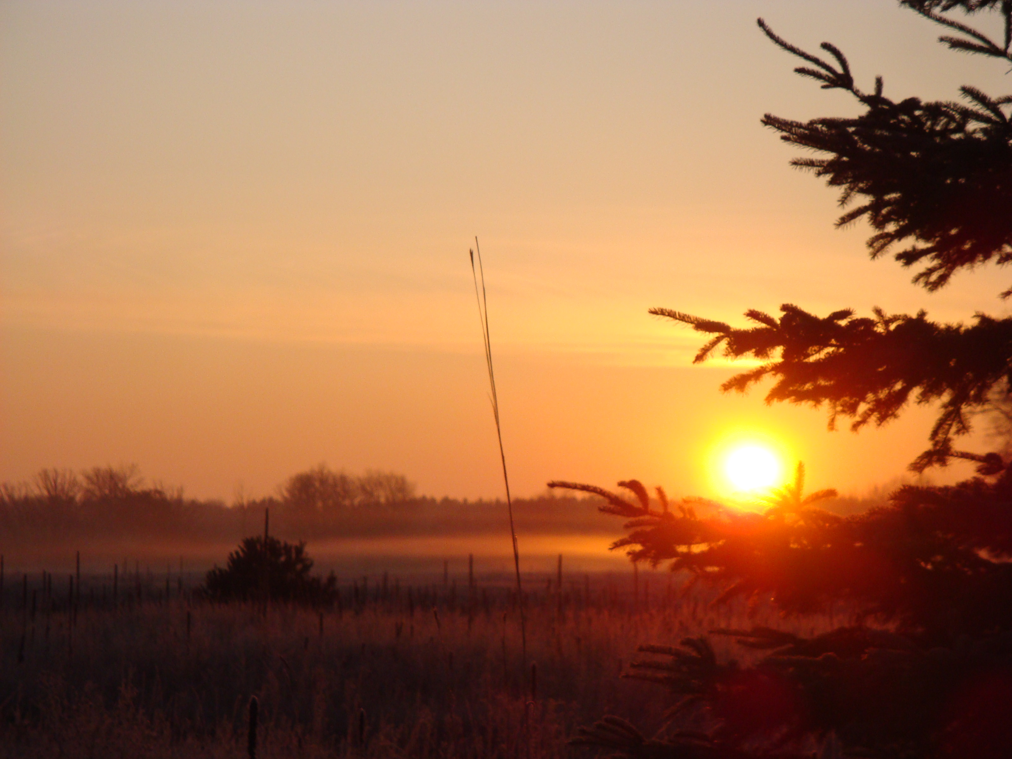 Taken in Arna township on Pansy Landing Road in late fall of 2009. Sunrise, mist over farmer's field, pine boughs and grass stem in foreground.